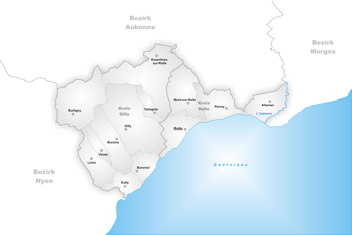 Municipalities of District Rolle until 2007